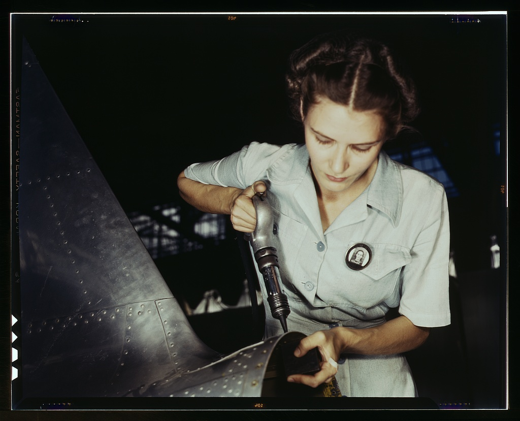 Title: Answering the nation's need for womanpower, Mrs. Virginia Davis made arrangement for the care of her two children during the day and joined her husband at work in the Naval Air Base, Corpus Christi, Texas. Both are employed under Civil Service in the Assembly and repair department. Mrs. Davis' training will enable her to take the place of her husband should he be called by the armed service